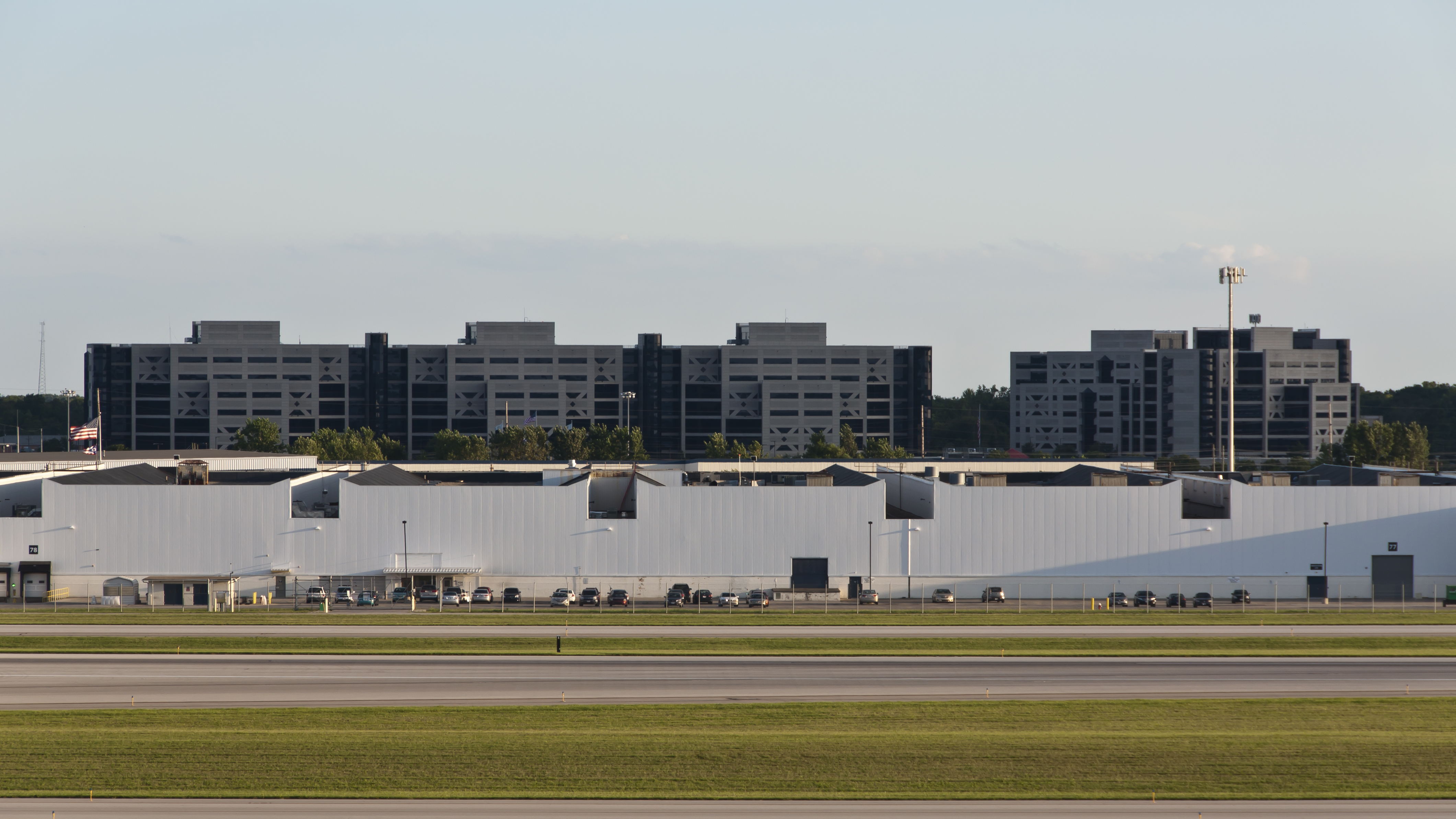 Defense Logistics Agency and Defense Supply Center Columbus in Whitehall, Ohio viewed from the North. This photo was taken from KCMH.